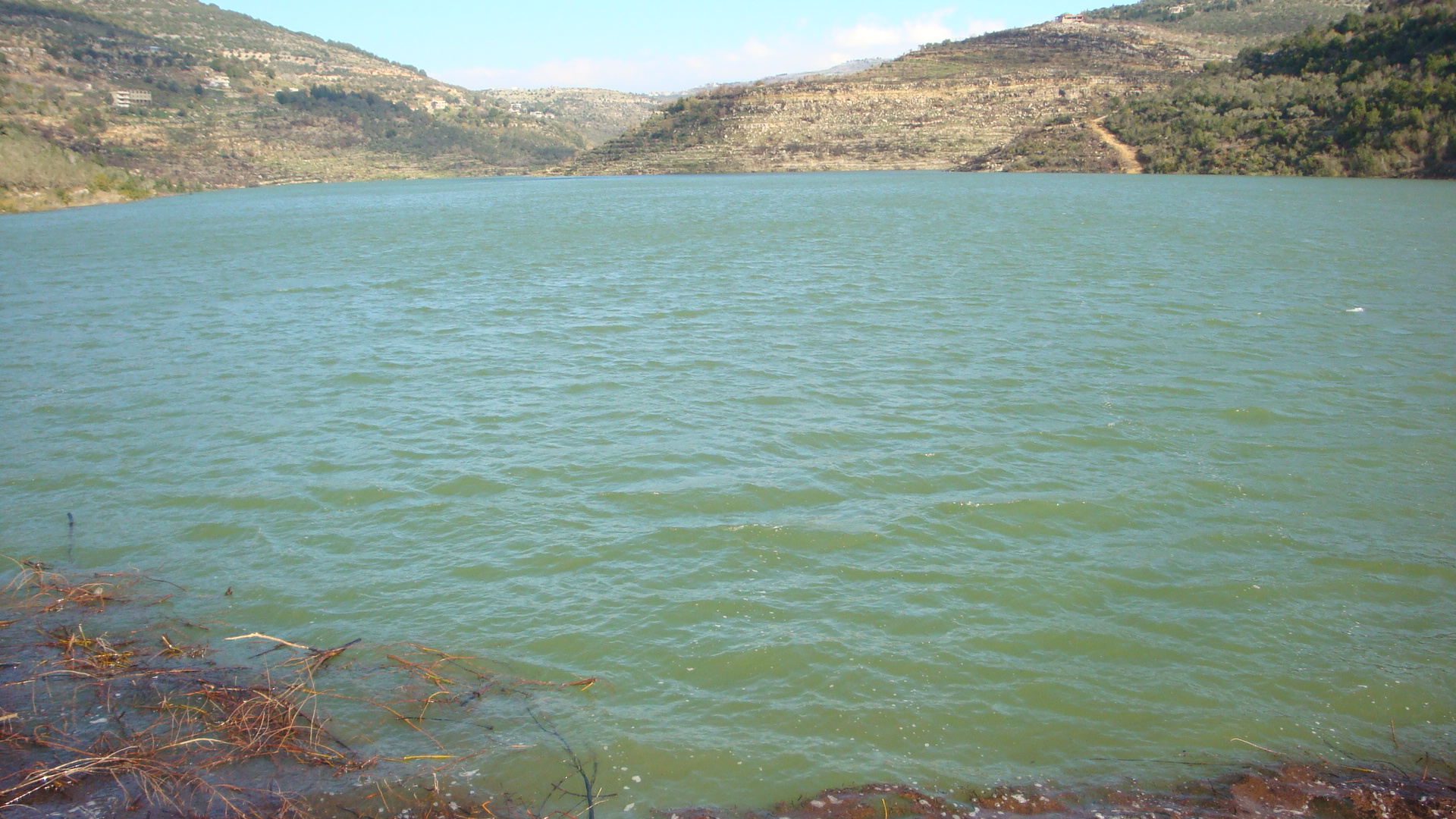 DREIKISH DAM ON QAIS RIVER